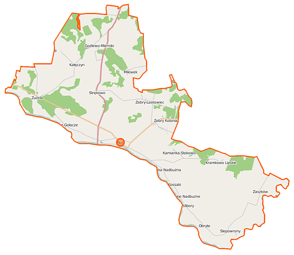 Map of Gmina Nur, Poland This map of Nur (gmina) was created from OpenStreetMap project data, collected by the community. This map may be incomplete, and may contain errors. Don't rely solely on it for navigation. Border coordinates52.750822.2041←↕→22.478752.6068